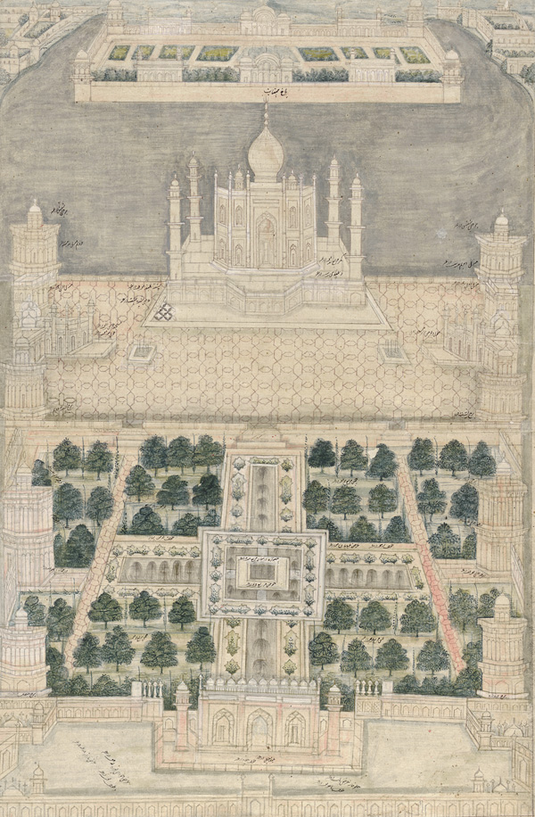 Bird's Eye View of the Taj Mahal at Agra